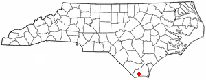 Category:North Carolina Dot Maps